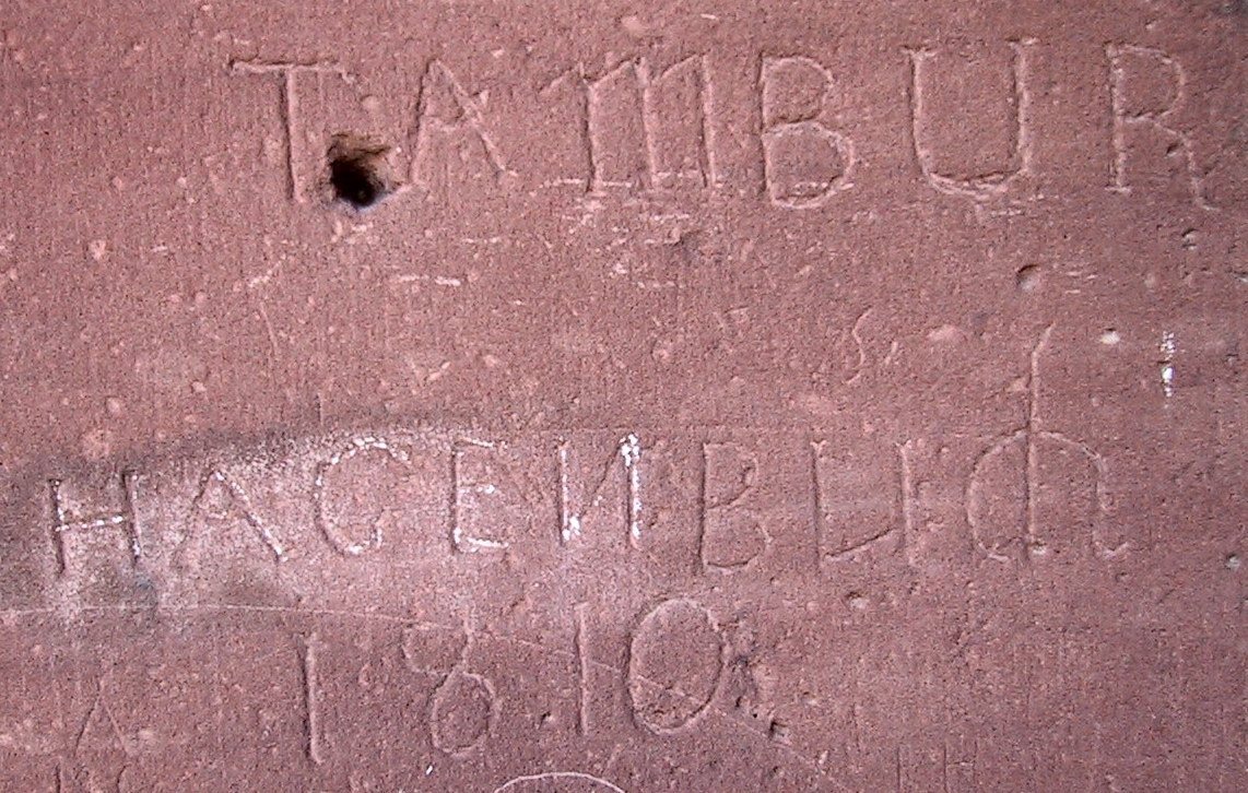 Description: Graffiti at the Freiburg Minster dated 1810 Source: self-made Date: 18.01.2008 Author: Manfredjohannes